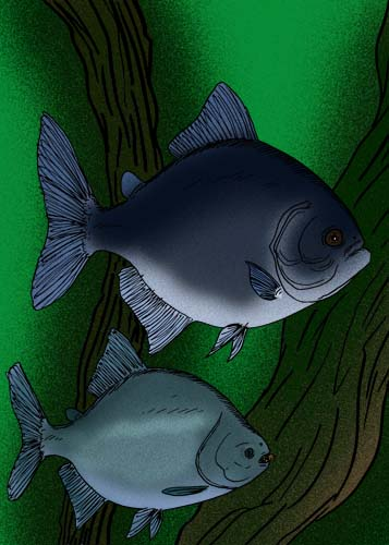 Reconstruction of the extinct serrasalmanid characin, Megapiranha paranensis, of Late Miocene Argentina, compared with the extant tambaqui, Colossoma macropomum